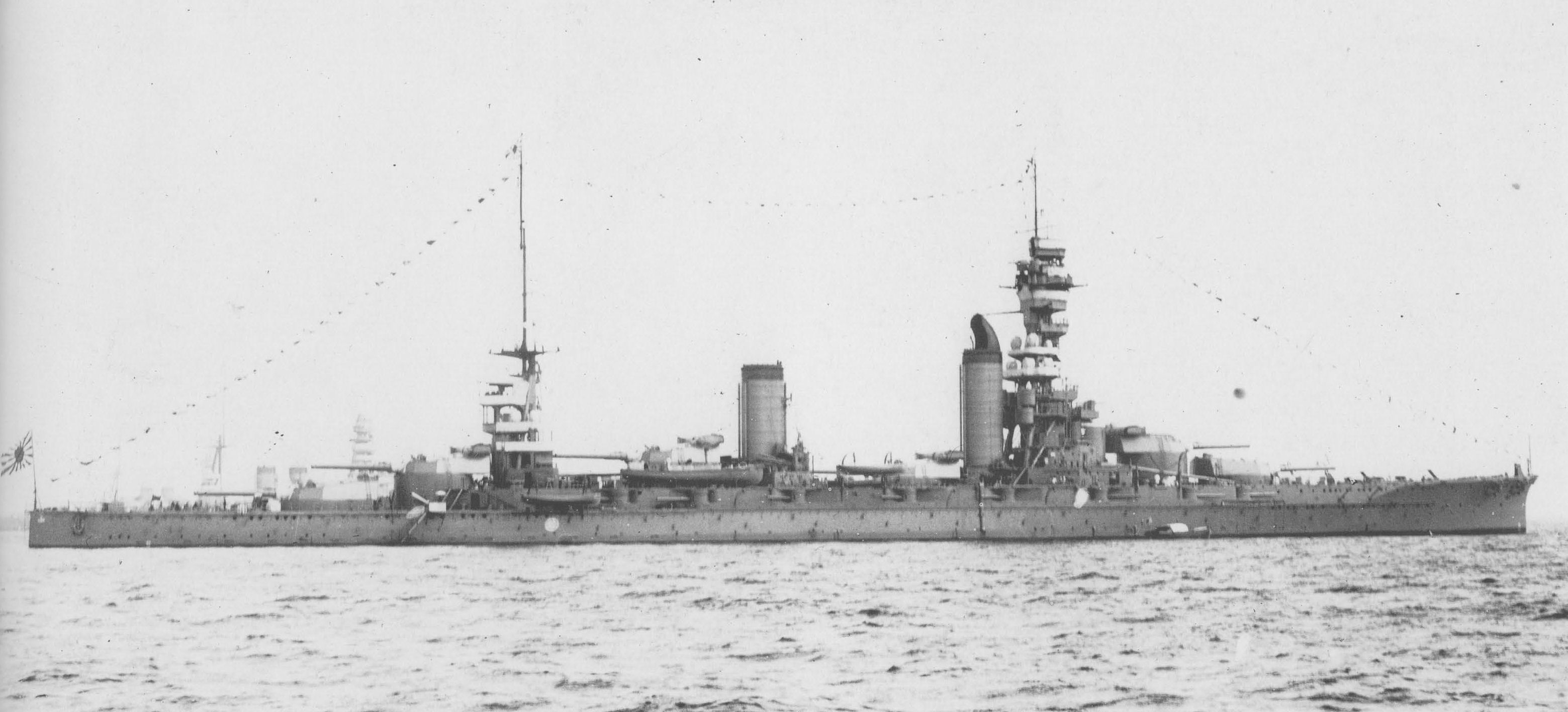 Imperial Japanese Navy battleship Fusō prepares for a review at Yokohama, Japan